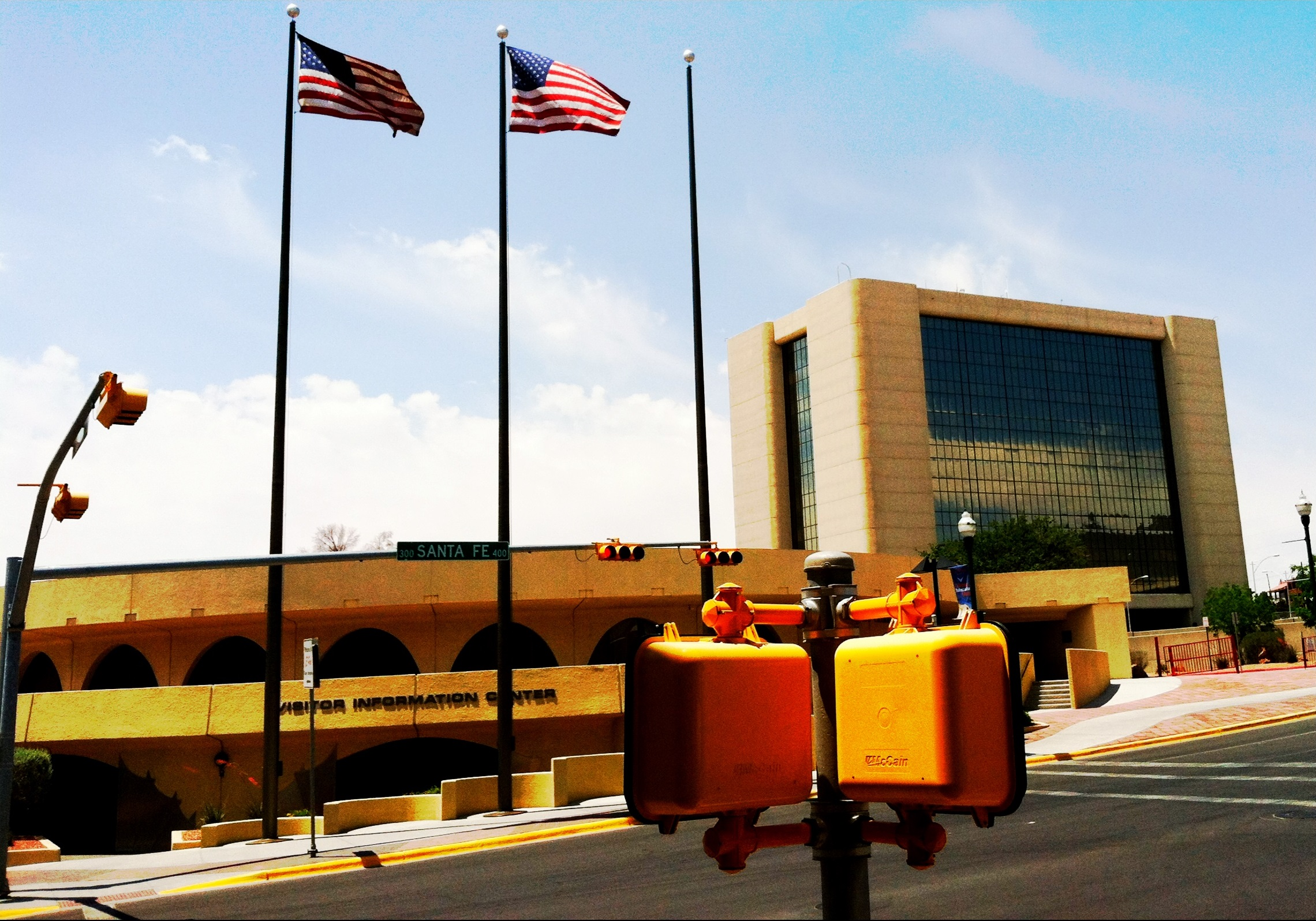 El Paso City Hall in 2012. This building was demolished in 2013 to make room for Southwest University Park, home of El Paso Chihuahuas.